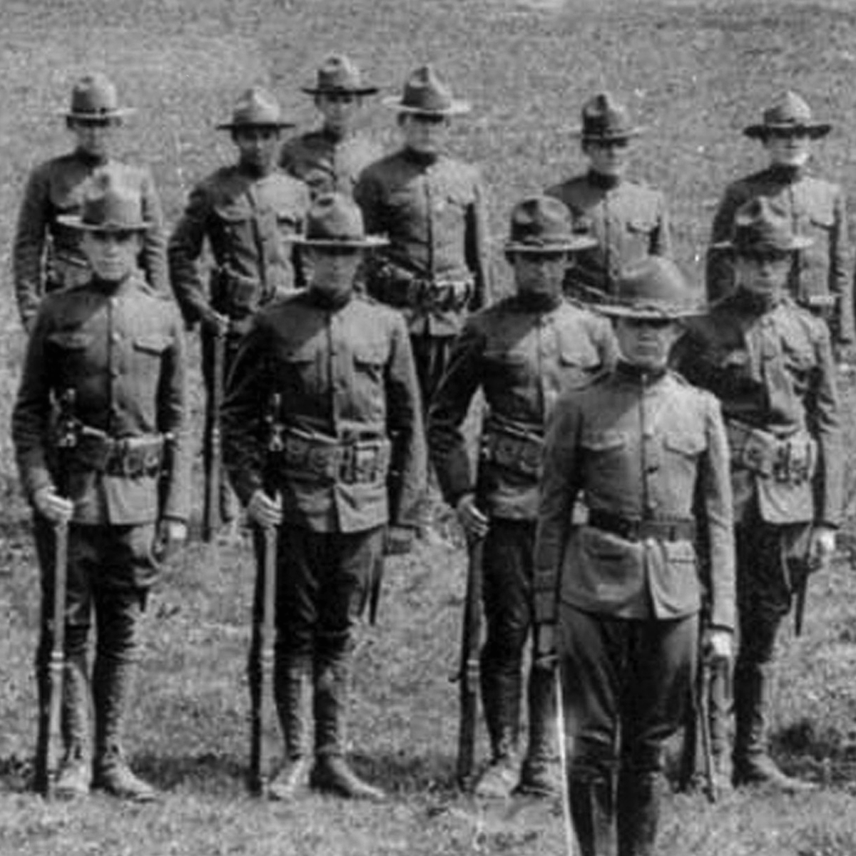 Nepalese student Padma Sundar Malla (second left, back row) as an ROTC cadet at the University of Michigan in the 1920s.